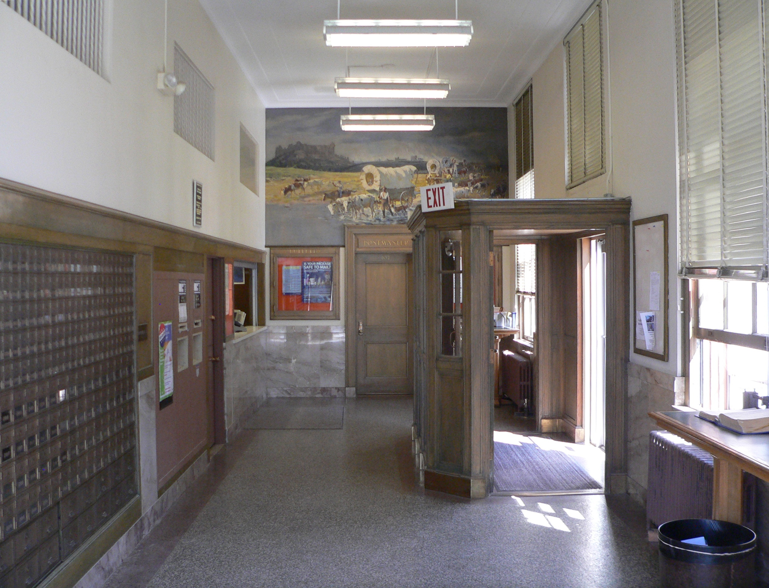 Interior of U.S. Post Office at northwest corner of 2nd and Main Streets in Crawford, Nebraska. The Moderne building was constructed in 1938. It is listed in the National Register of Historic Places. The camera is facing east; the vestibule at right leads to the front (south) entrance. The mural on the east wall is "The Crossing", painted by G. Glenn Newell in 1940.